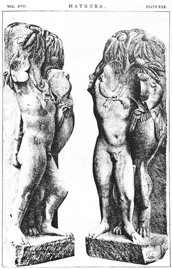 Mathura statue of Herakles strangling the Nemaean lion. For a recent photograph see [1] Mathura Herakles.